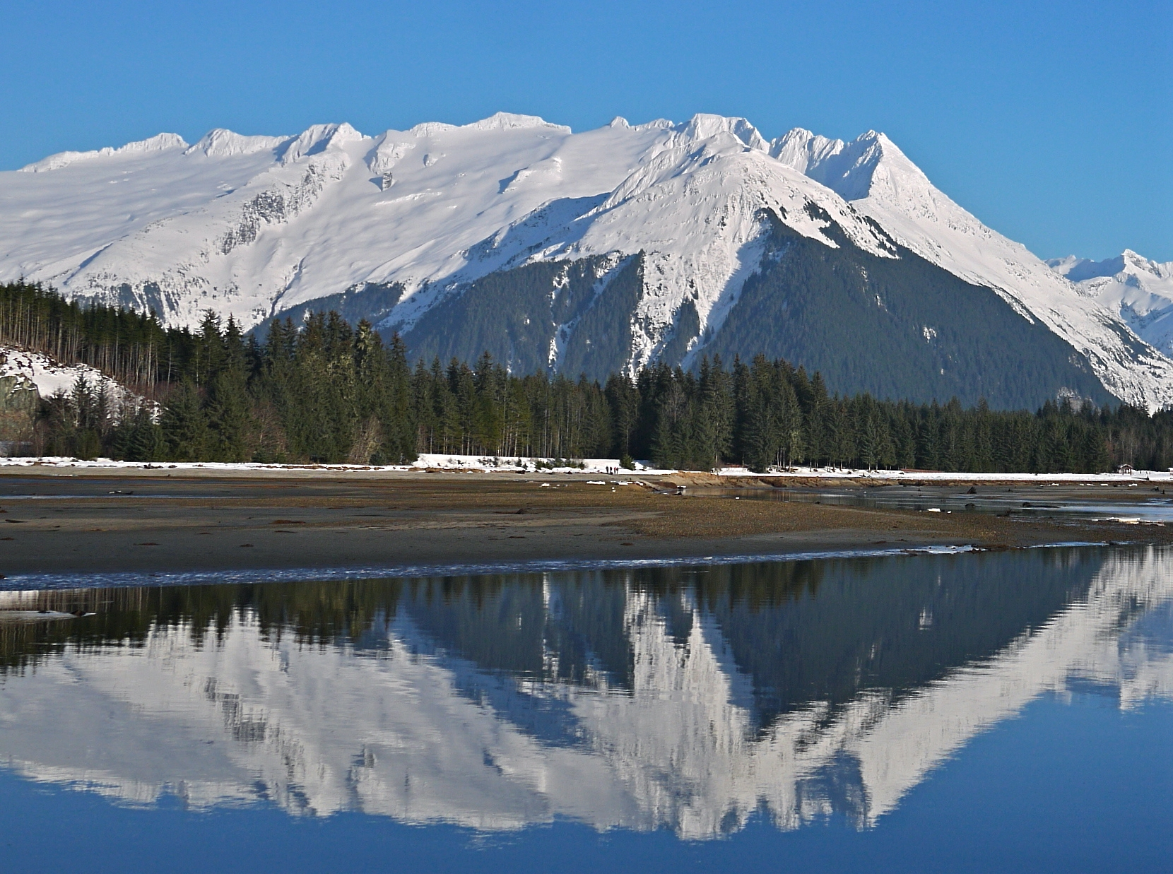 Mount Ernest Gruening reflection Eagle River